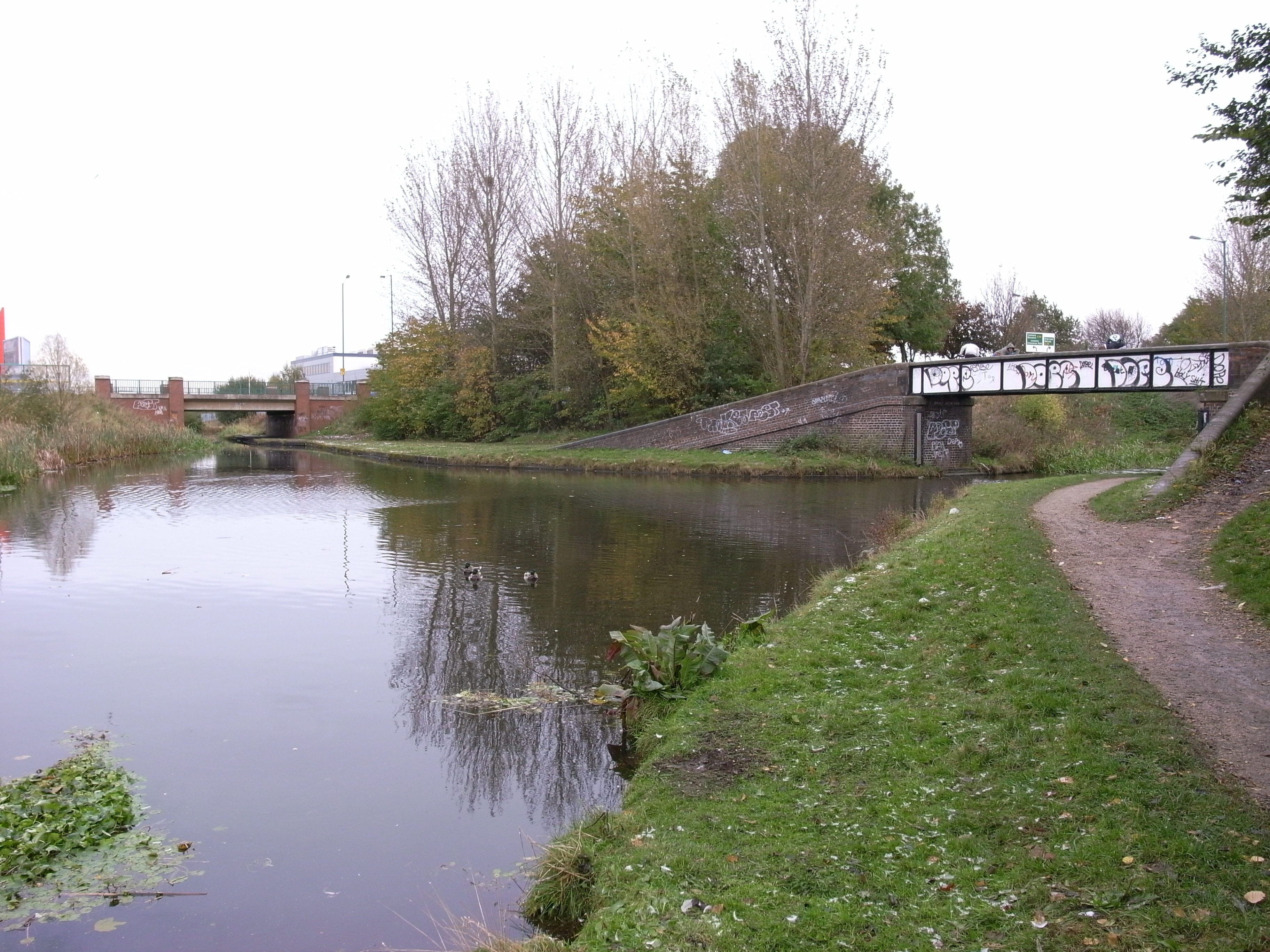 Birchills Junction on the Wyrley and Essington Canal. The Walsall Canal runs rightwards through the bridge. North ofWalsall in West Midlands (county), England. Both canals are part of the Birmingham Canal Navigations.